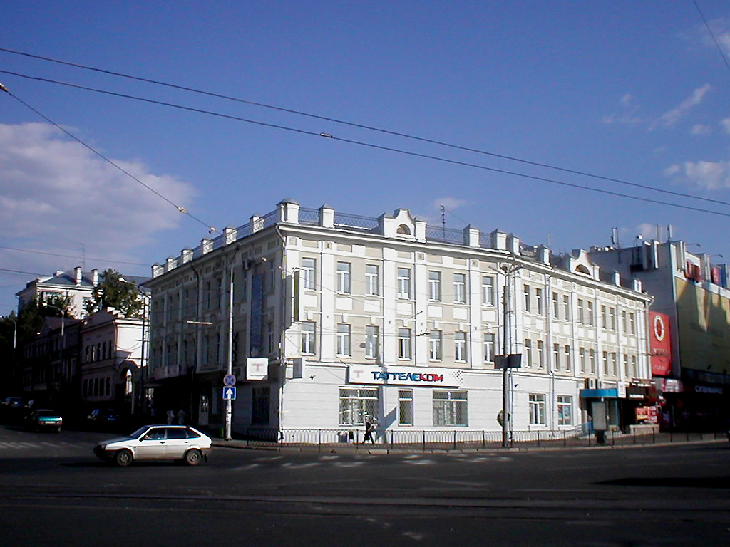 former post office on Tuqay square in Kazan